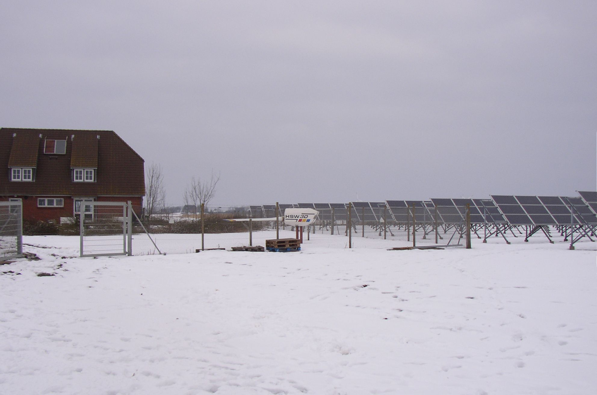 Solar and wind power plant on island Pellworm